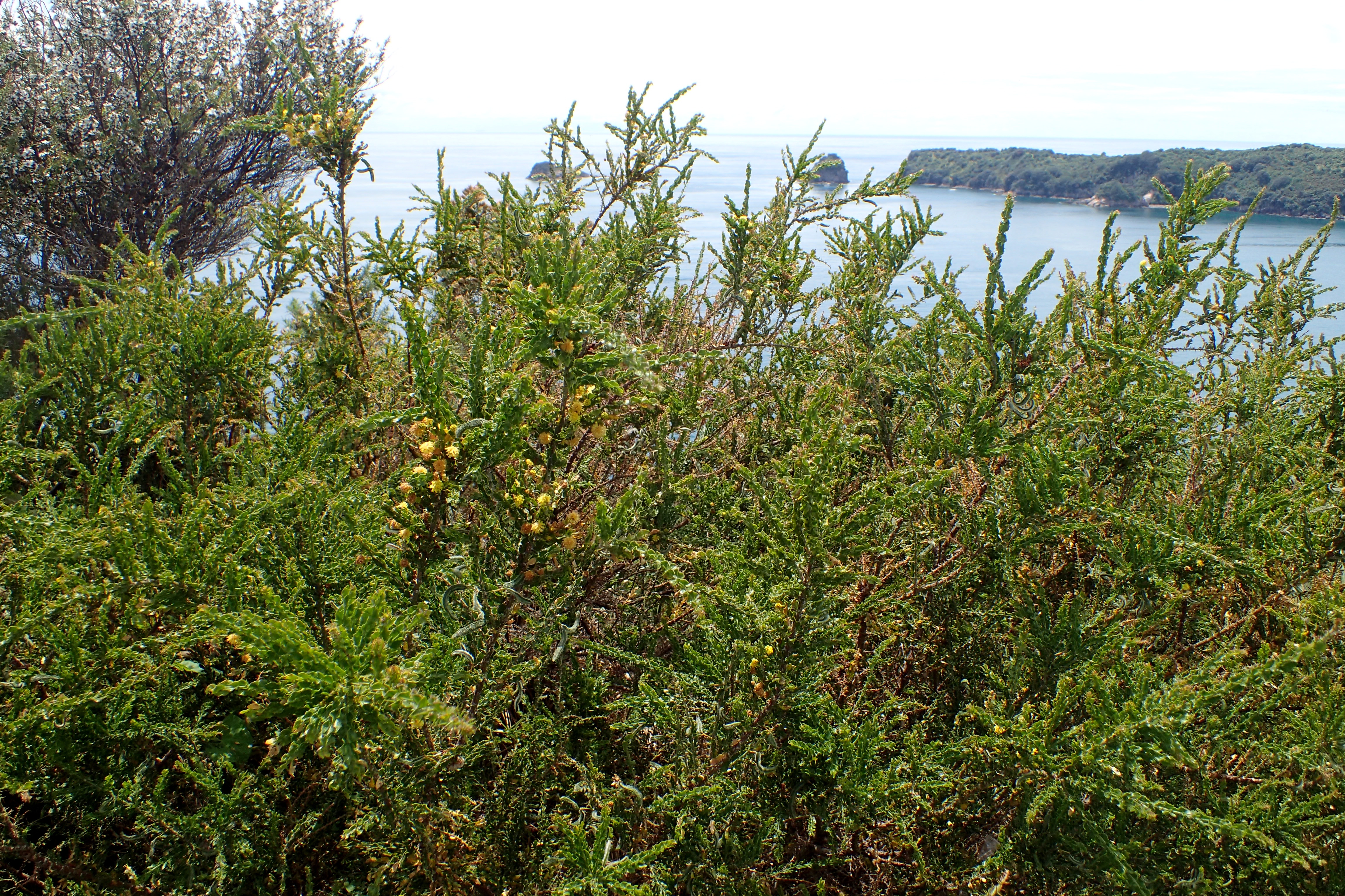 Acacia paradoxa in Hahei, Waikato (New Zealand)